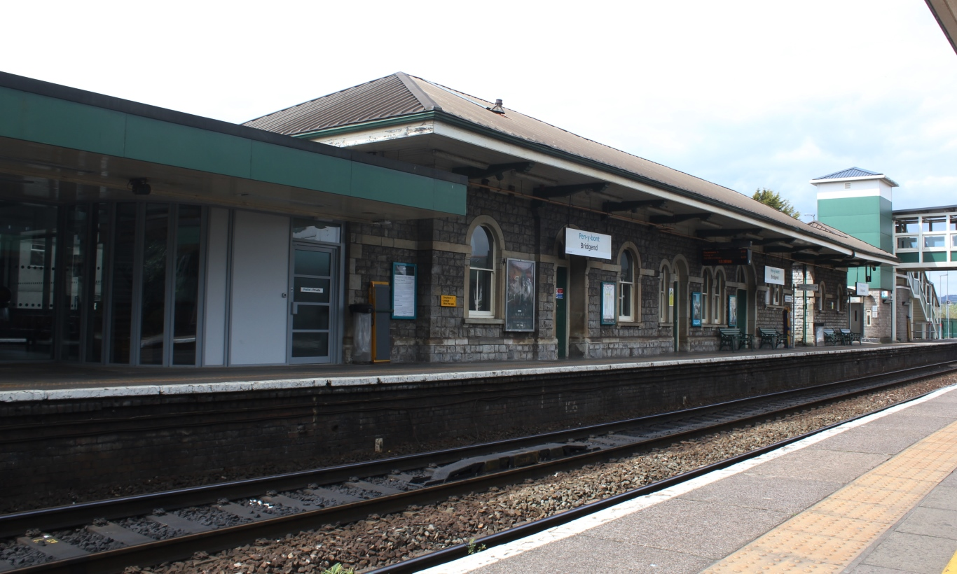 Platform 1 of Bridgend station is used by trains to Swansea and Maesteg. The main entrance is in the modern building on the left but the other buildings date from the station's opening in 1850.